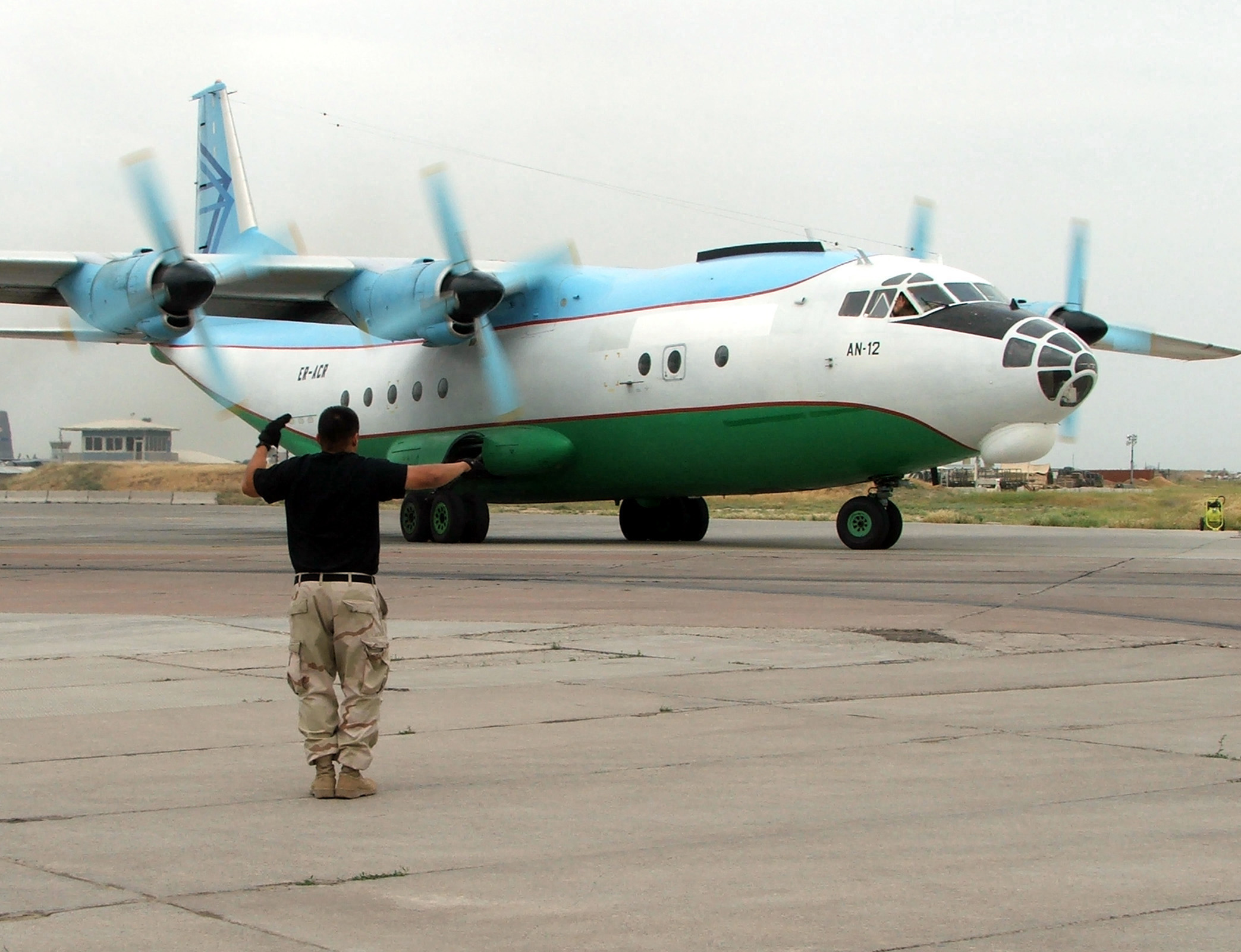 A U.S.-Airman marshals a Russian-built Antonov AN-12 cargo aircraft during Operation Enduring Freedom at Karshi-Khanabad Air Base, Uzbekistan, on May 2, 2005.